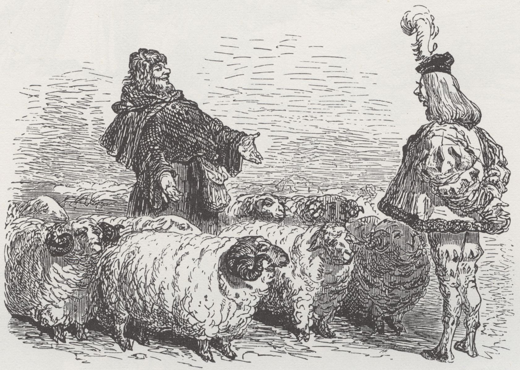 Dingdong and Panurge (by Gustave Doré)